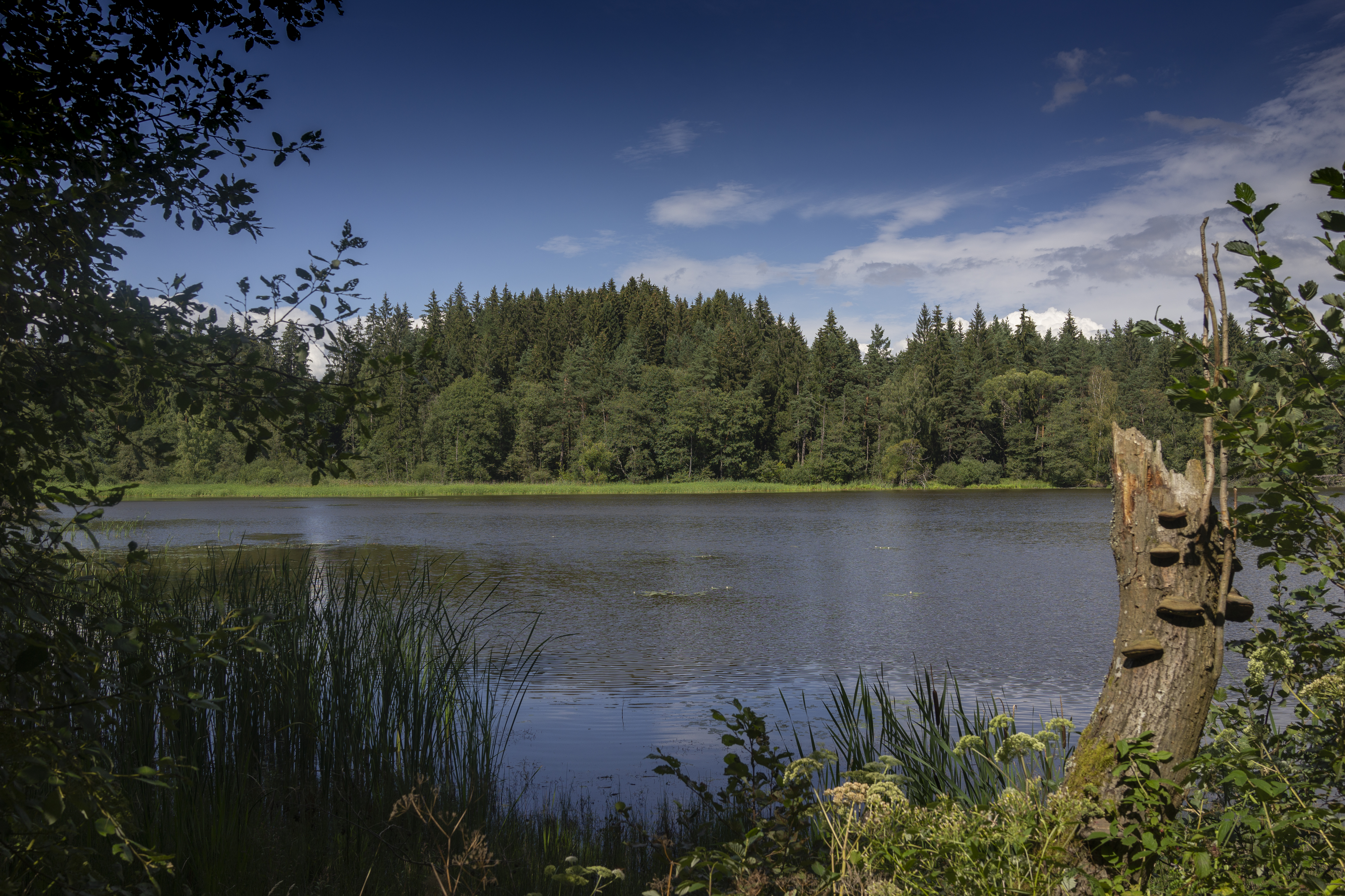 Nature reserve Planicsky rybnik (Planicsky pond), Czech Republic